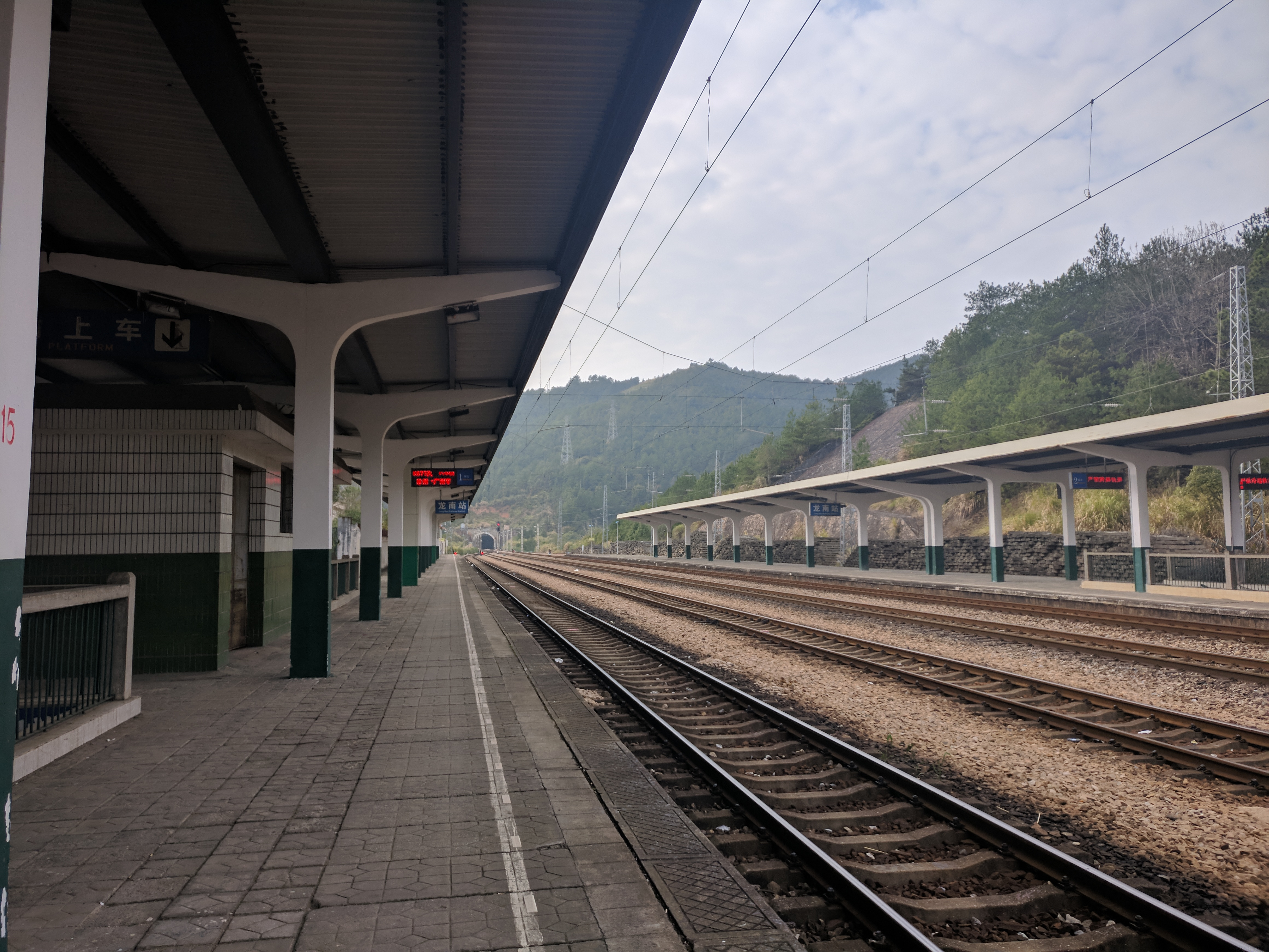 The No.1 platform of Longnan Railway Station